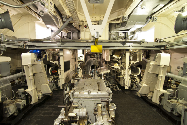 Triple 28 cm SK C/34 Turm Caesar of Gneisenau battle ship in present condition in MKB Ørlandet also known as Austrått Fort in Norway.